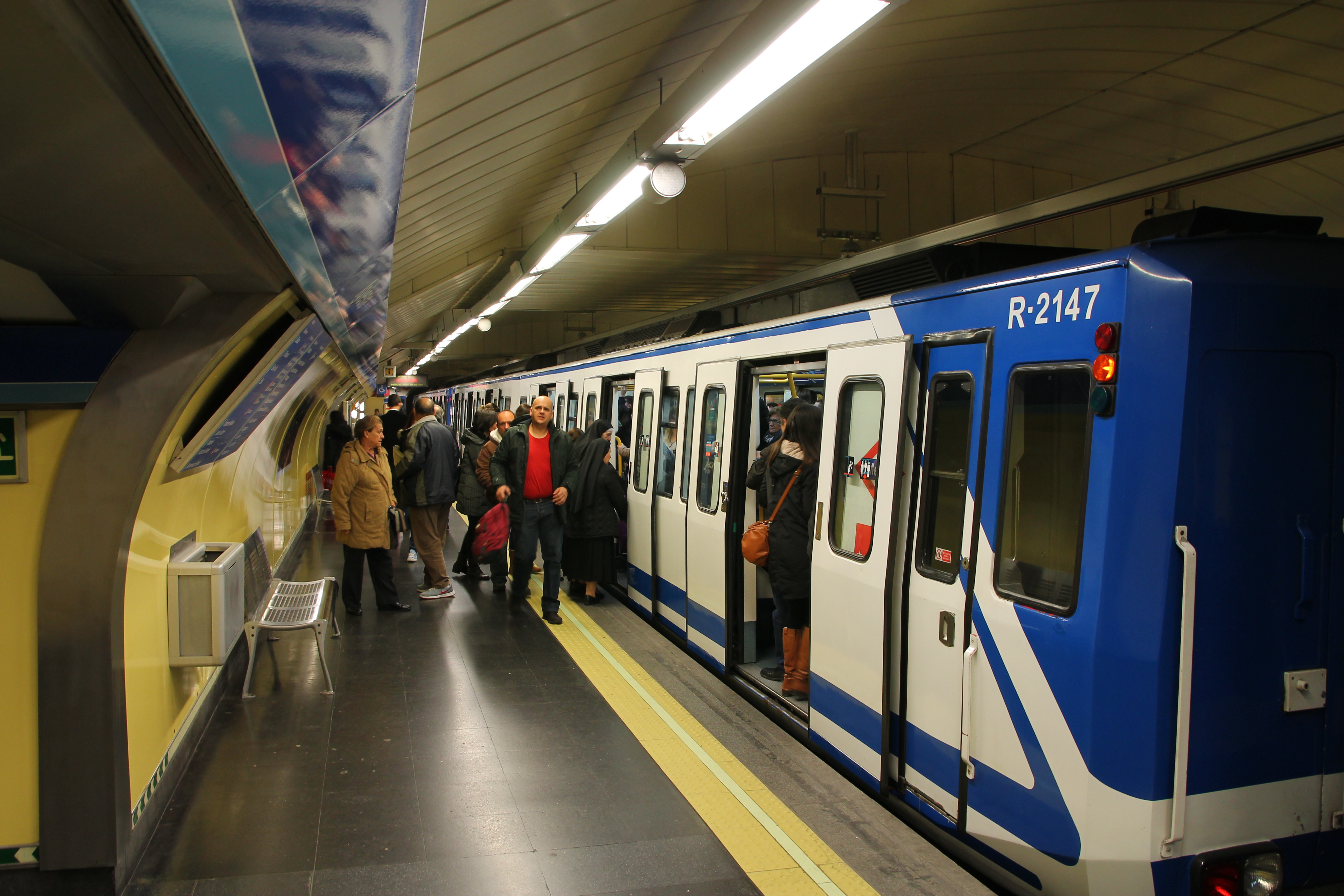 Estación de Iglesia